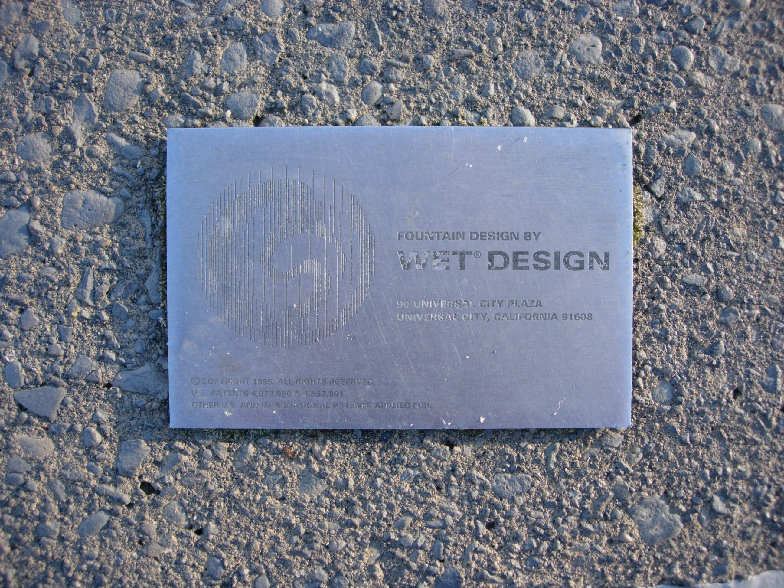 It's patented, and for that matter, copyrighted! And the company's name is a registered trademark! Transcription in notes.